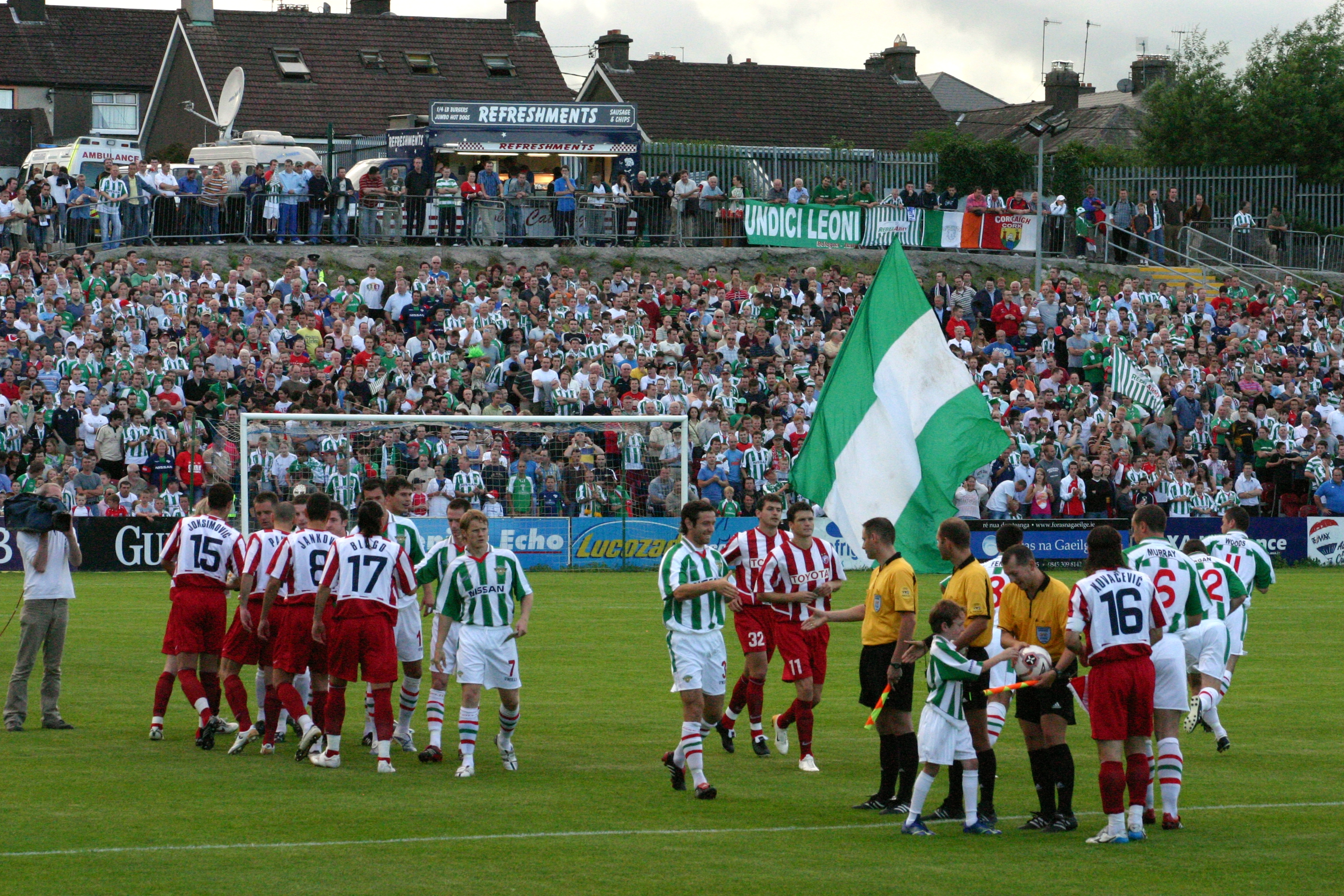 Qualifying champions league 2006-07 match. Cork City (Ireland) - Crvena Zvezda (Belgrade).Handshakes II